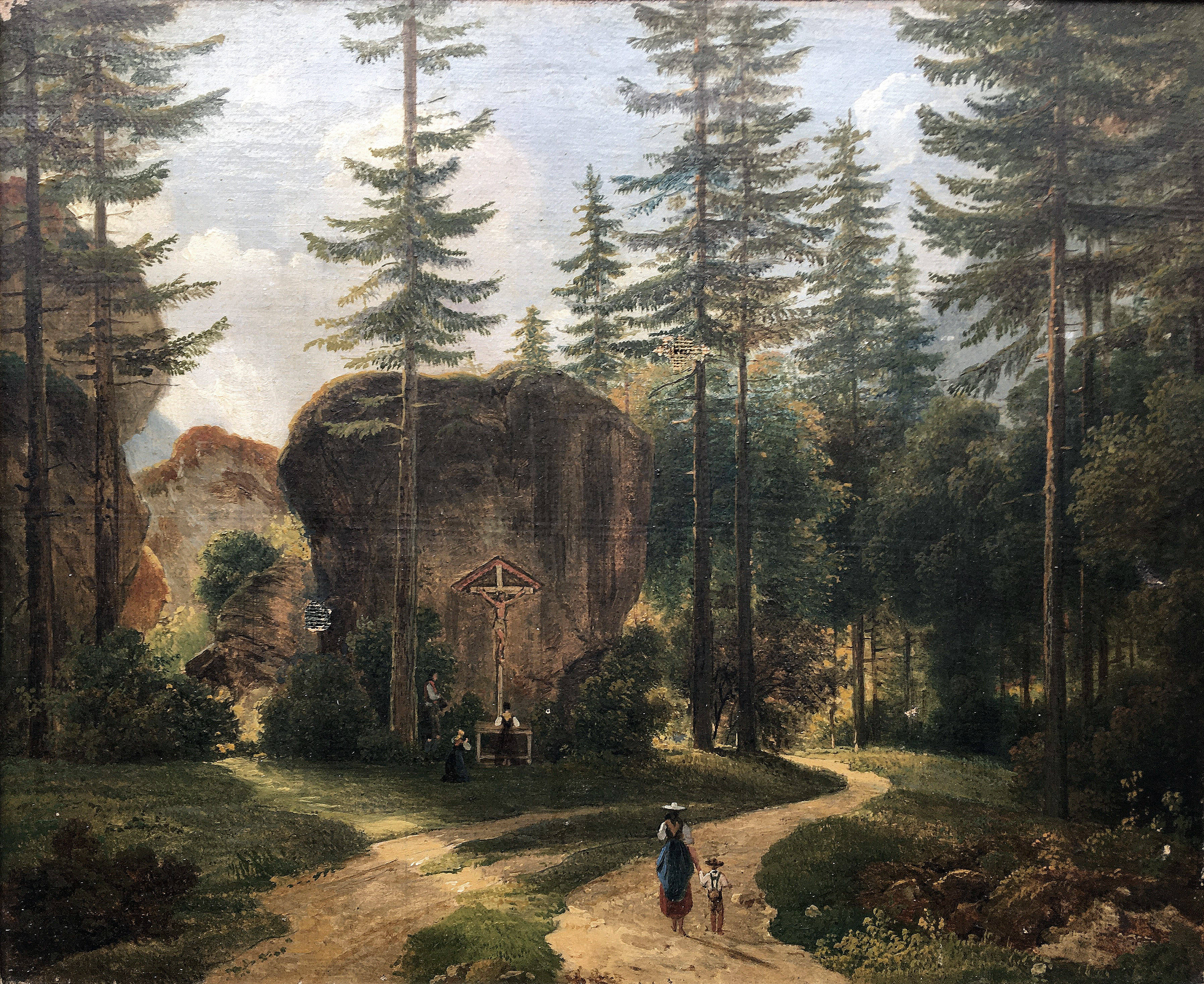 Landscape painting by Johann Nepomuk Schödlberger